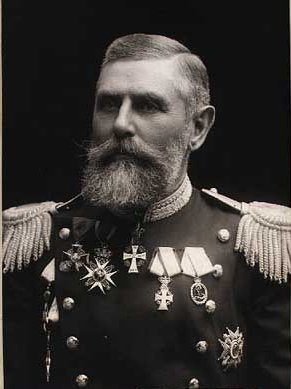 Peter Erasmus Müller (1840—1926), Danish forester and soil scientist